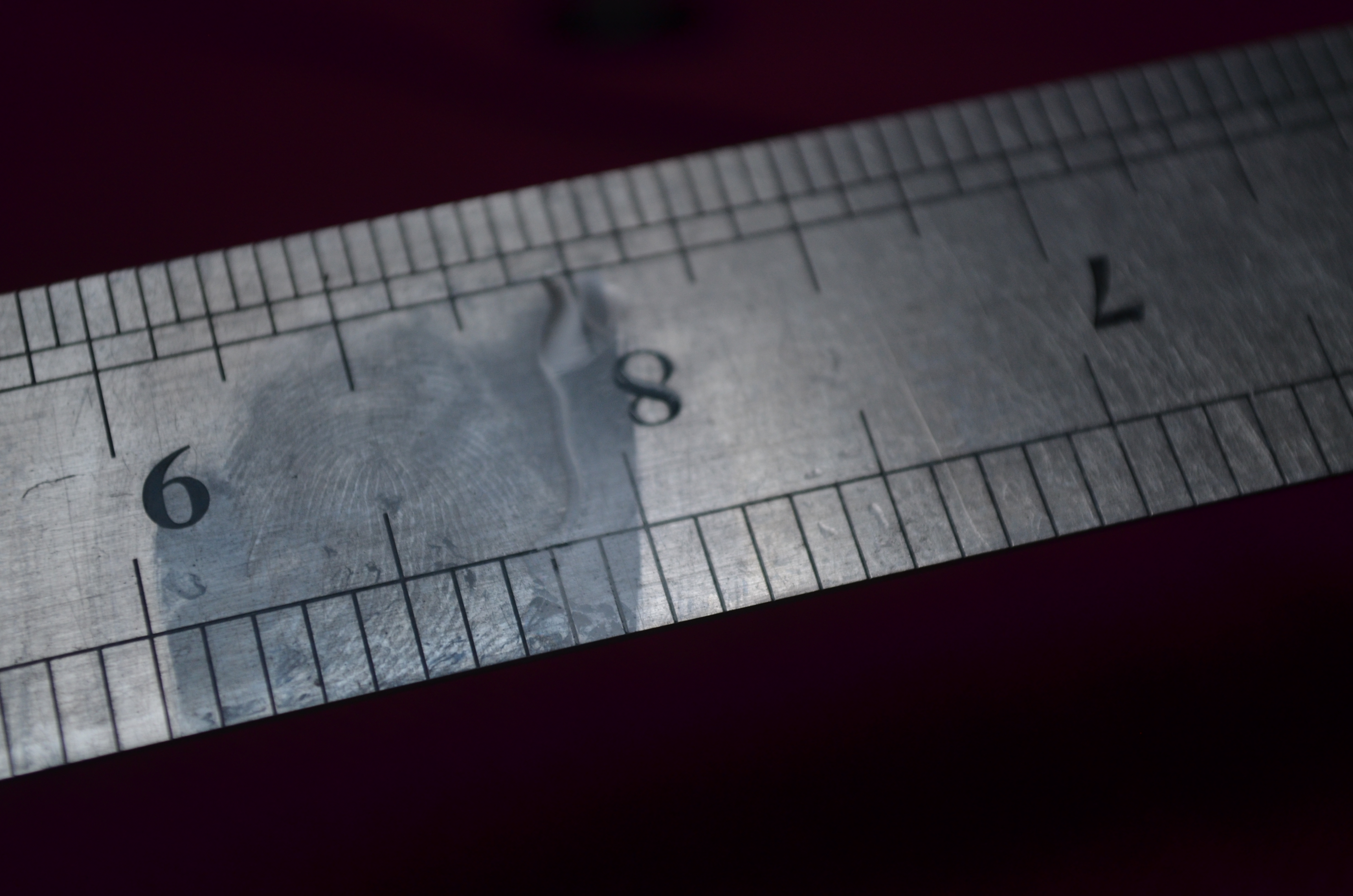 Student to fingerprint expert revealing latent fingerprints on wet surfaces using molybdenum disulfide. Photografy taken in the chemical laboratory of IUPFA.